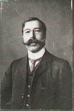 Dutch painter Ludolph Berkemeier (1864-1931)